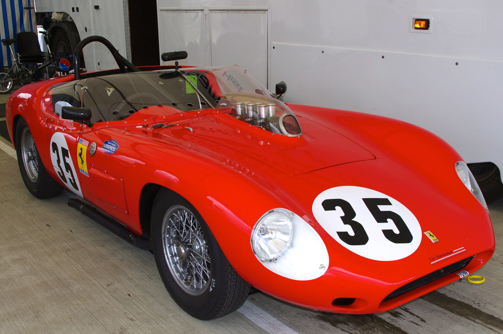 Silverstone Classic 2011